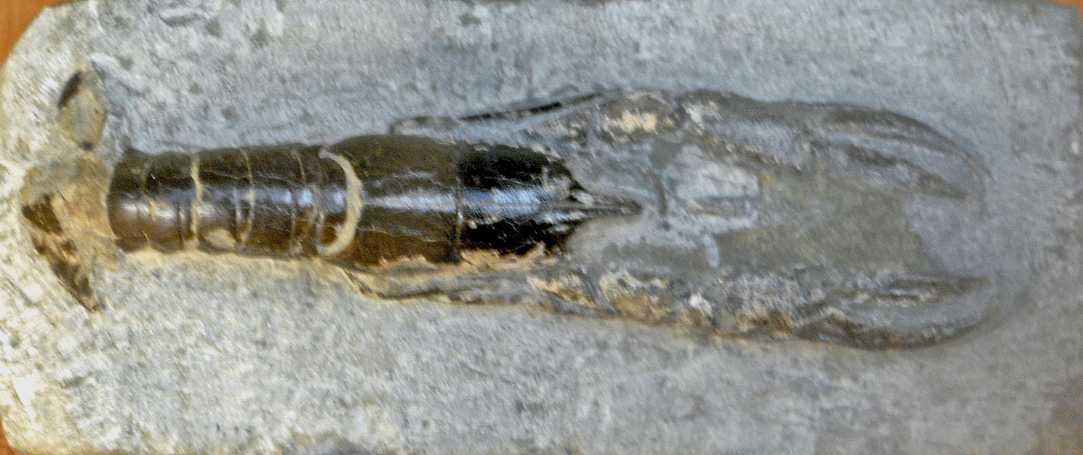 crop of file in file name